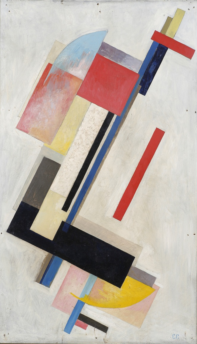 Sergei Senkin, "Non Objective Composition,"1921